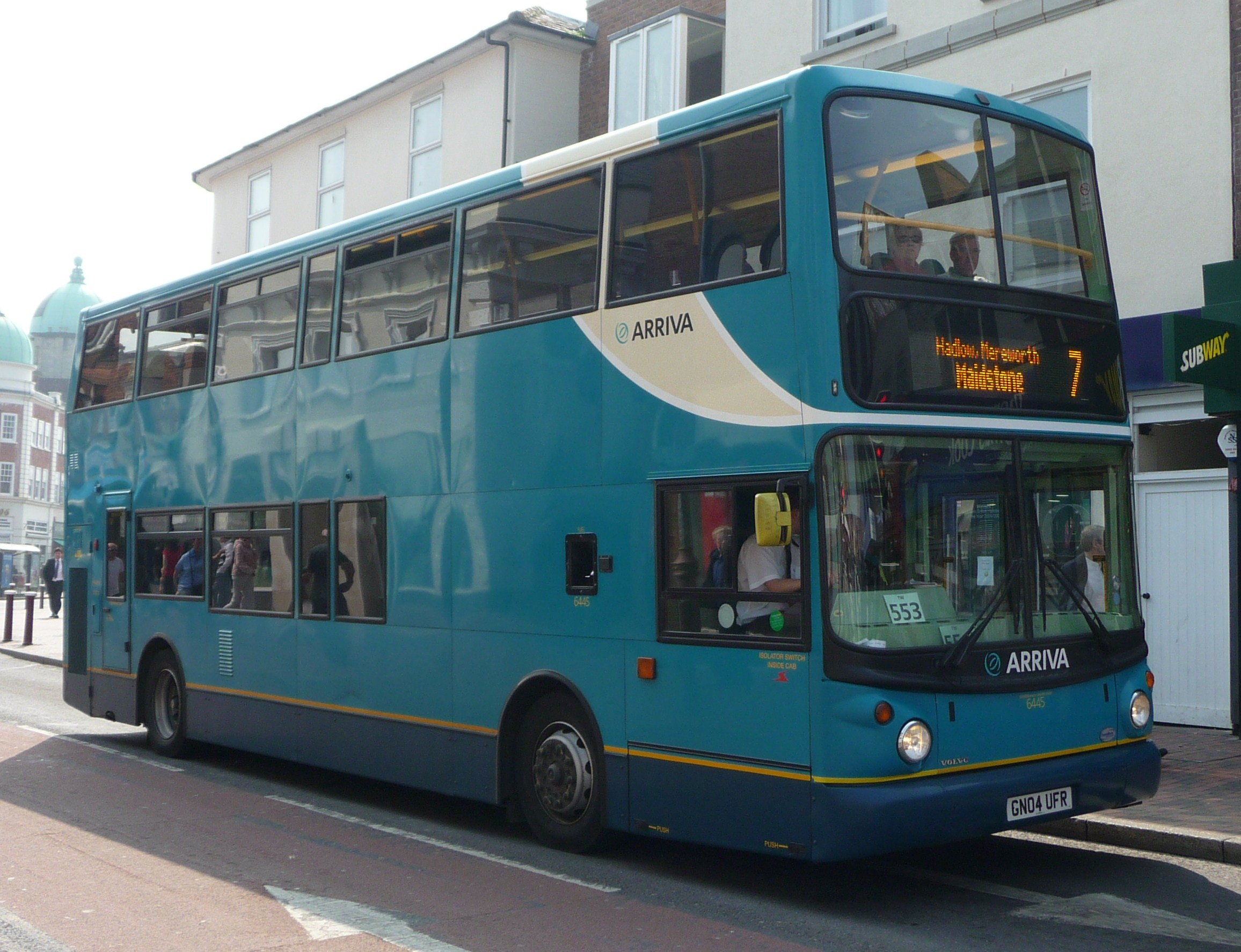 Arriva Kent & Sussex 6445 (GN04 UFR), a Volvo B7TL/Alexander ALX400, in Grosvenor Road, Tunbridge Wells, on route 7. This was one of the Volvos displaced from route 101 in Chatham by new Alexander Dennis Enviro400s in December 2008.